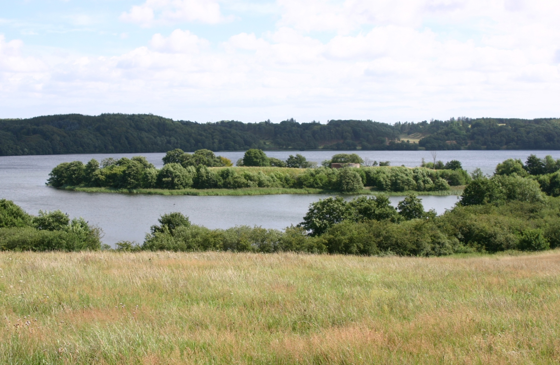 Hald sø (lake), Viborg, Denmark. The peninsula with the ruins of the bishops castle.